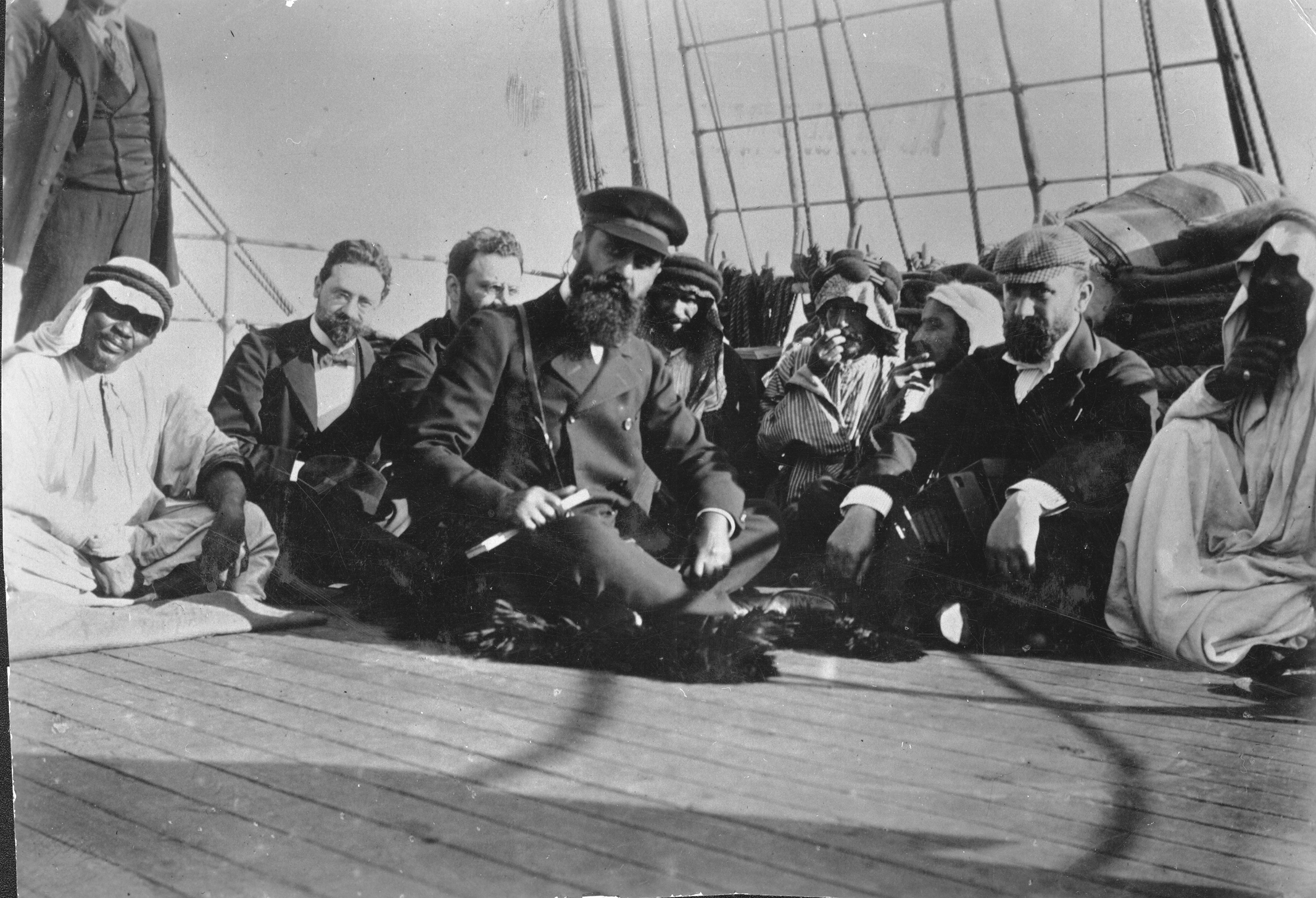 Herzl\'s visit to Israel. On the first days of the journey on board the Russian ship \"Imperator Nikolai II\", sailing from Alexandria toward the port of Jaffa